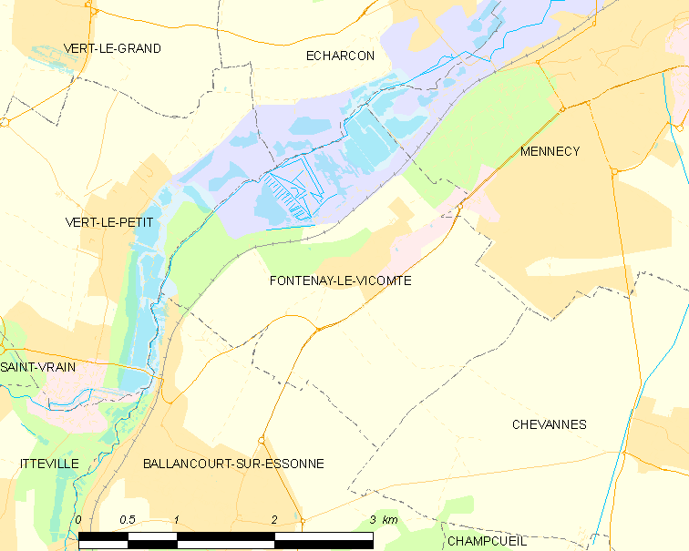 Map of French municipality Fontenay-le-Vicomte